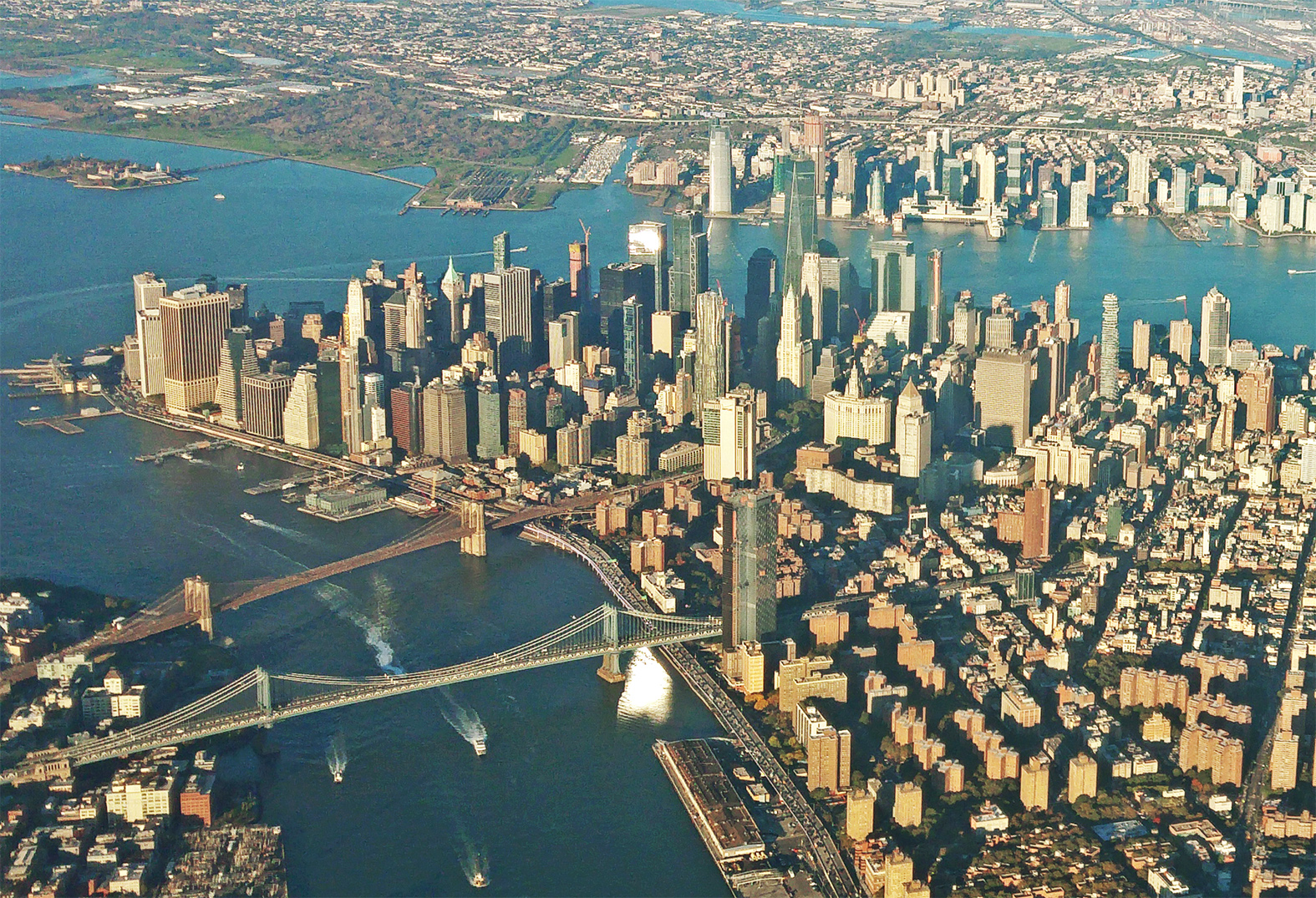 Lower Manhattan from a plain to La Guardia, Nov 2018